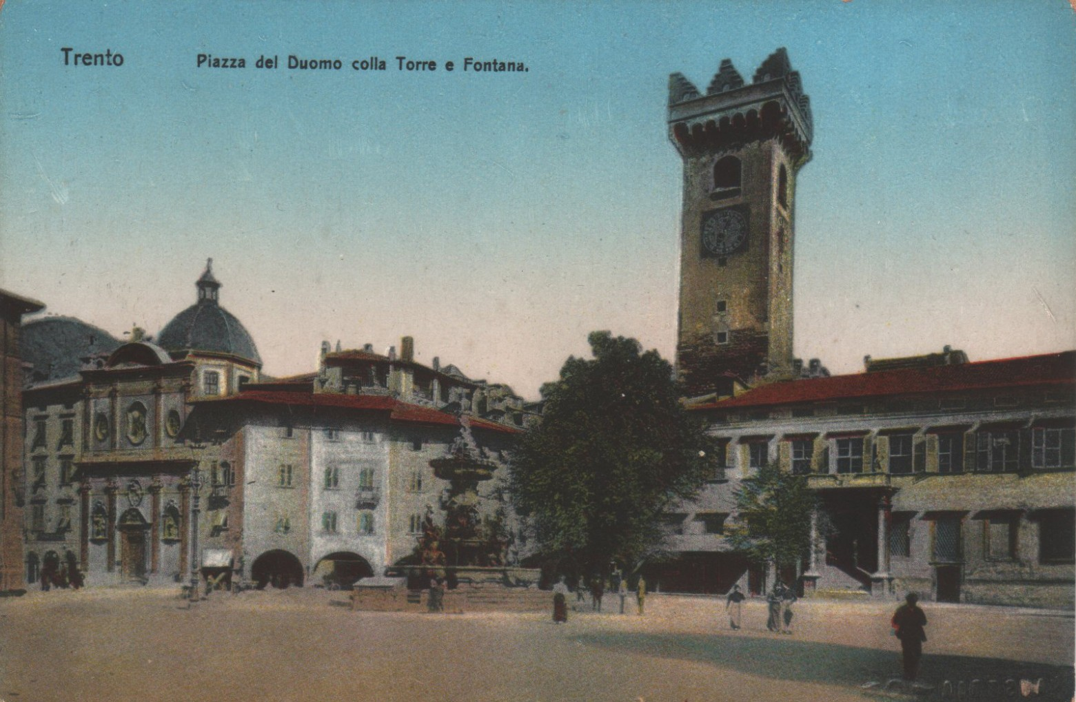 View of the Piazza del Duomo facing the Cathedral, c. 1910.